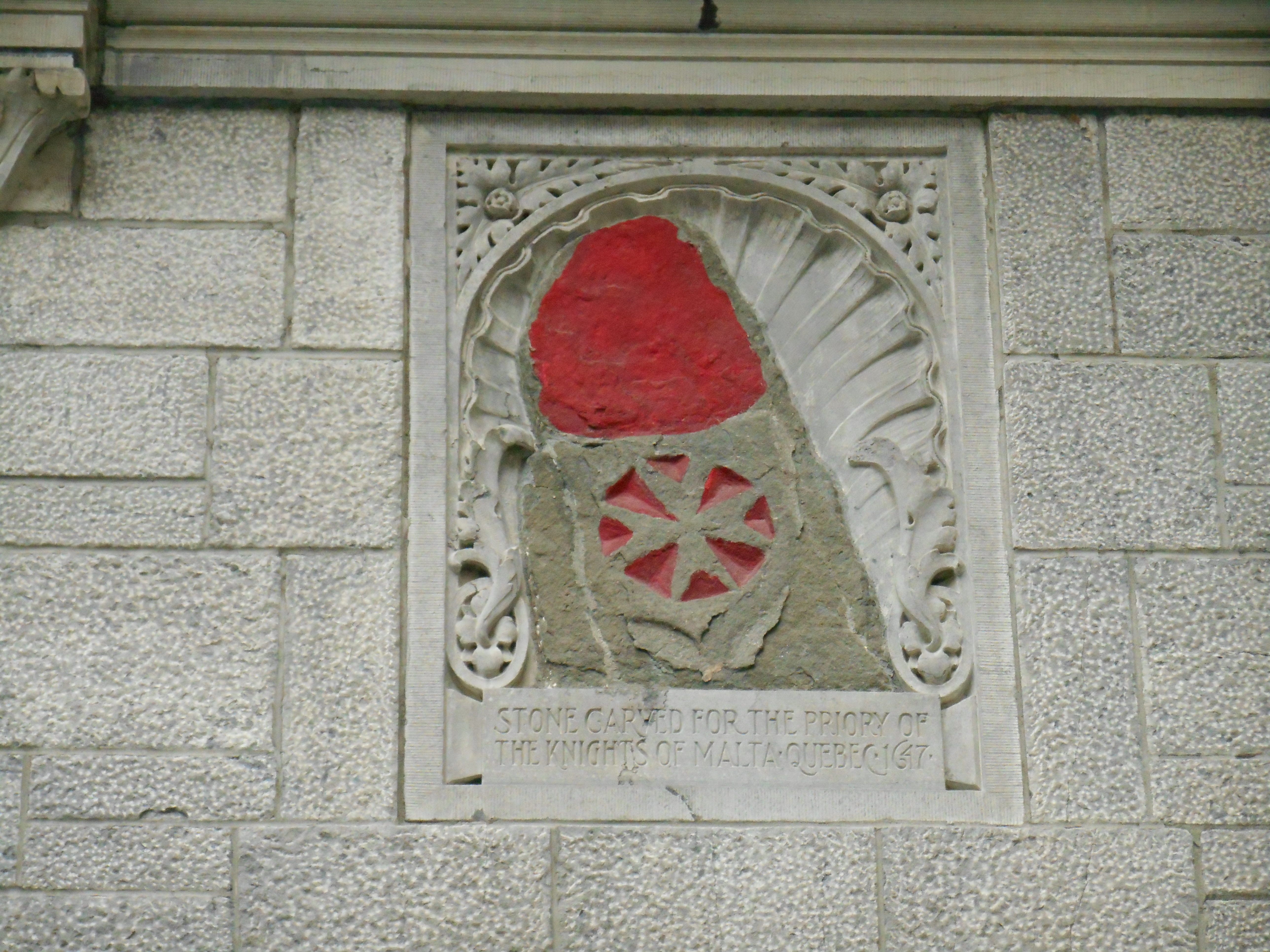 « Stone carved for the Priory of the Knights of Malta, Quebec, 1647 »